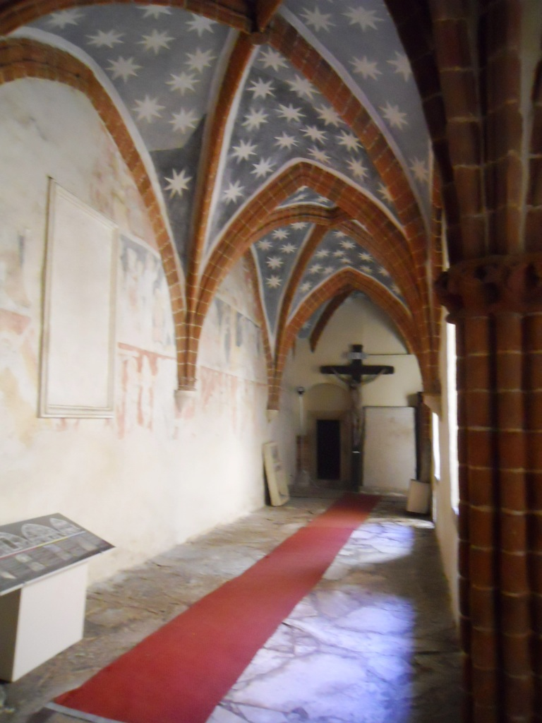 Strakonice castle cloister